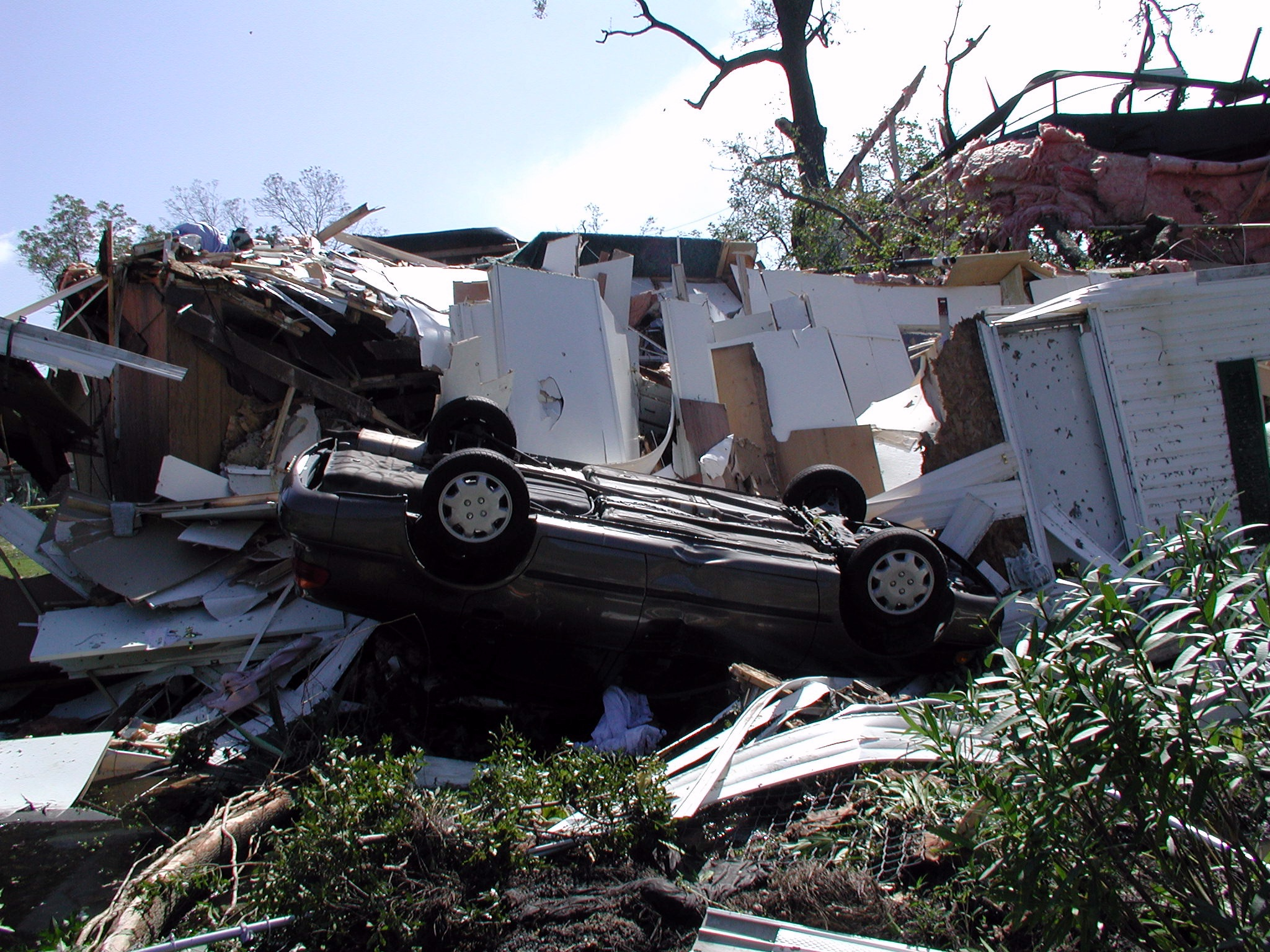 A car flipped over by a tornado spawned by Tropical Storm Kyle in Georgetown, South Carolina in October 2002. This was the basis for rating the tornado an F2